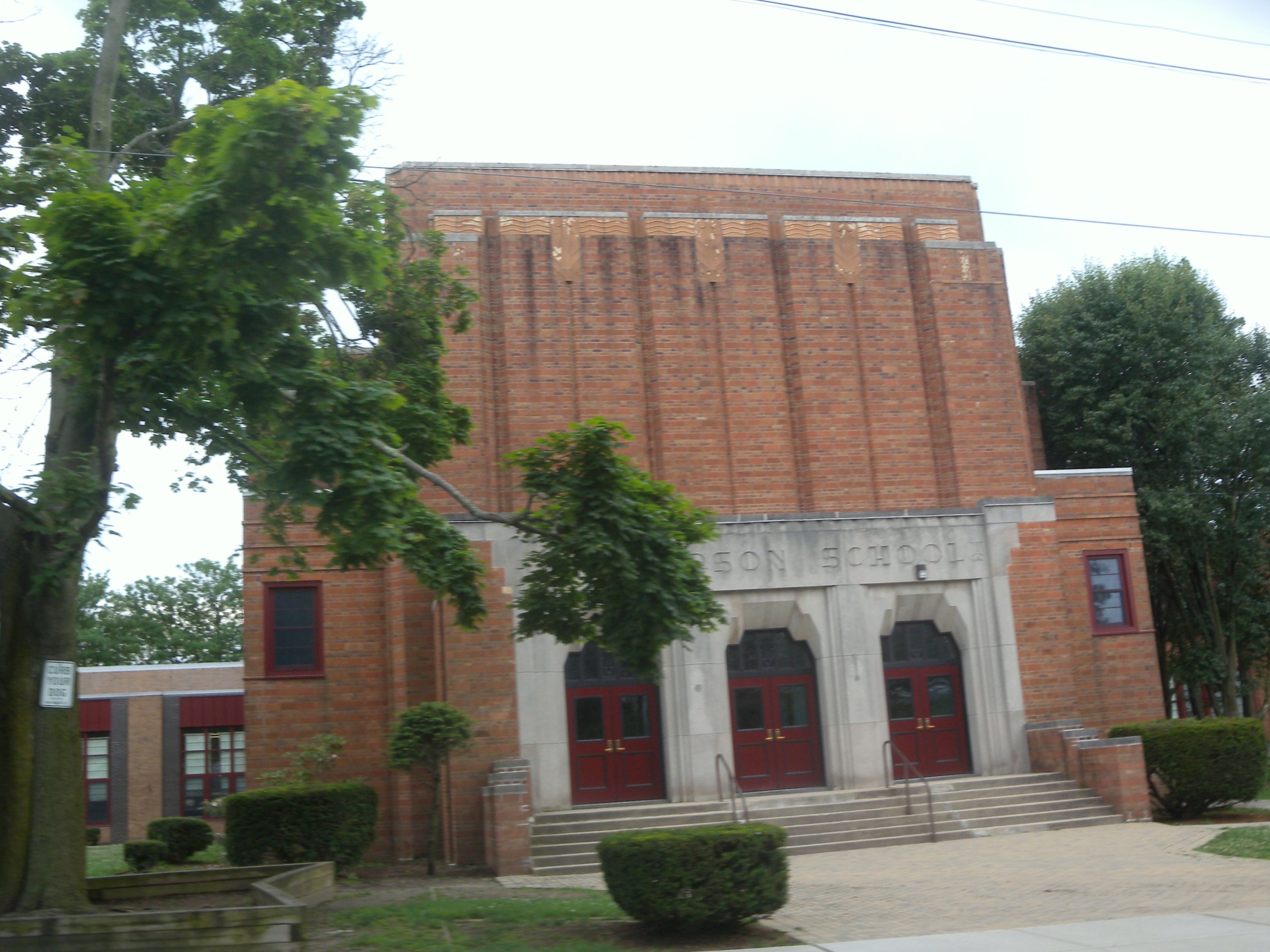 Looking west at Jefferson School on a cloudy day.